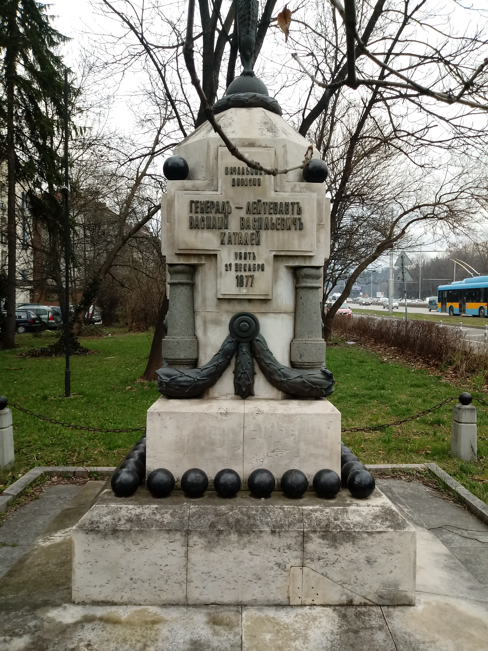 Memorial of 3rd Guard Infantry Division, Sofia - in front of the Bulgarian News Agency. On the right side - memorial of General-lieutenant Vasiliy Vasilievich Kataley